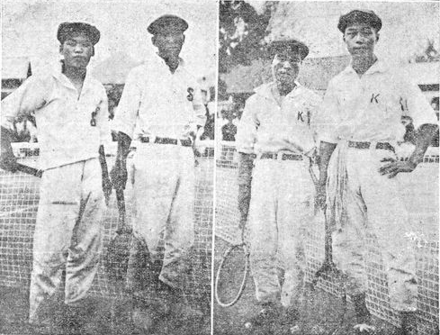 Soft tennis at the 1921 Korea National Sports Festival